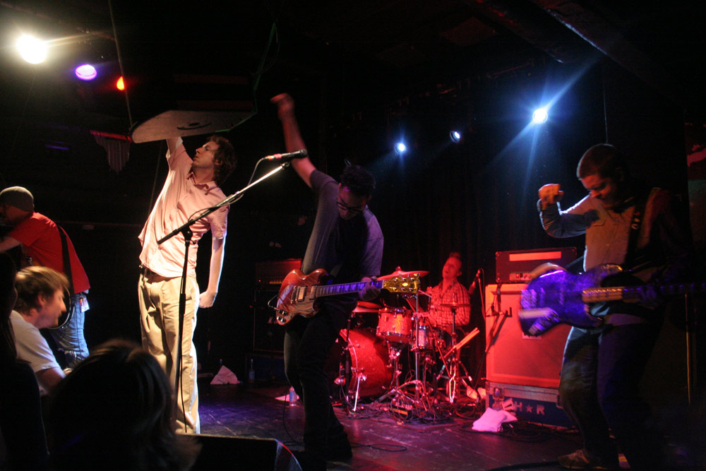 Hundred Reasons - Thekla - Nov 2009